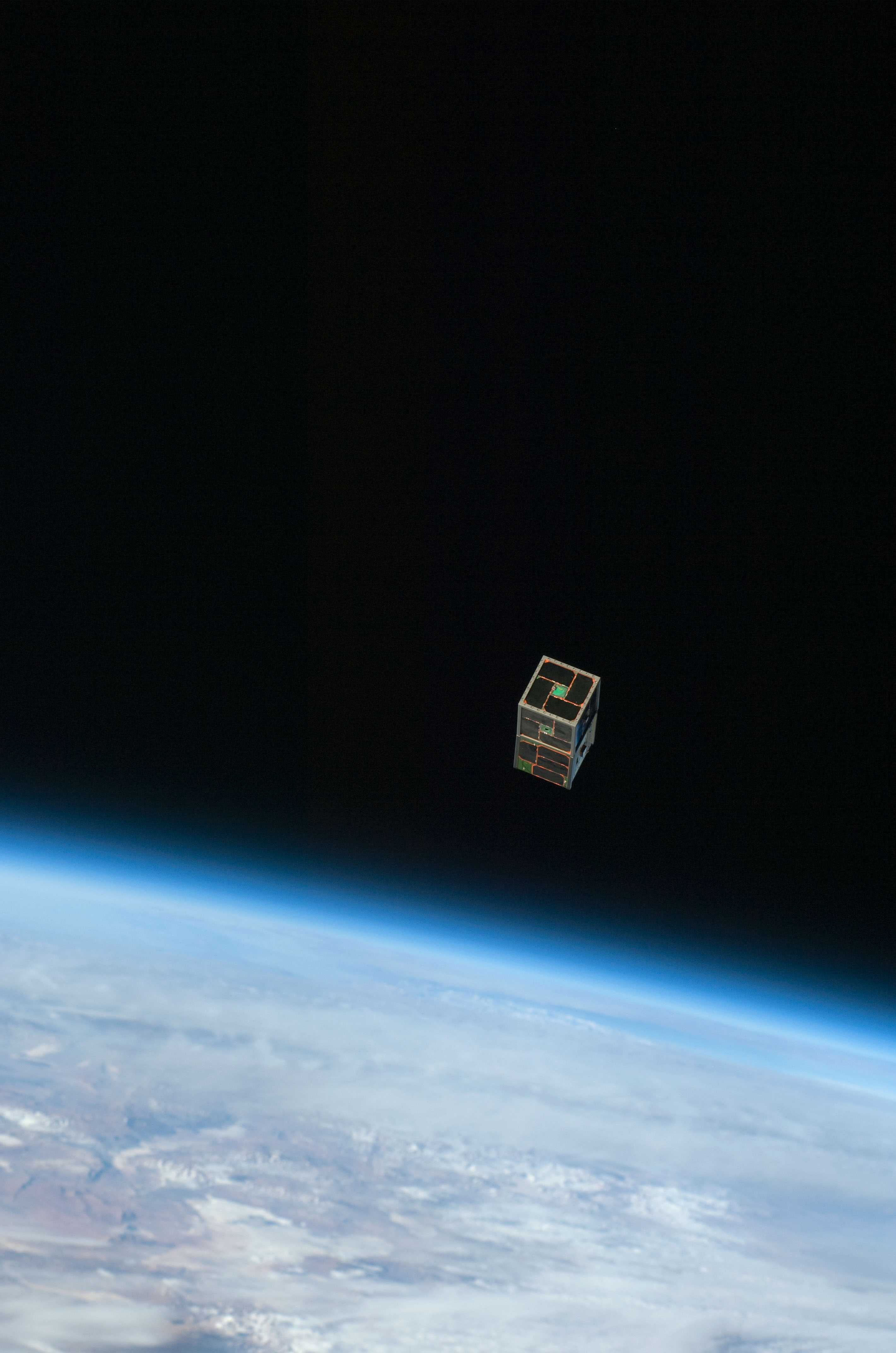 S127-E-012774 (30 July 2009) --- Backdropped by Earth's horizon and the blackness of space, a Dual RF Astrodynamic GPS Orbital Navigator Satellite (DRAGONSat) is photographed after its release from Space Shuttle Endeavour's payload bay by STS-127 crew members. DRAGONSat will look at independent rendezvous of spacecraft in orbit using Global Positioning Satellite data. The two satellites were designed and built by students at the University of Texas, Austin, and Texas A&M University, College Station.